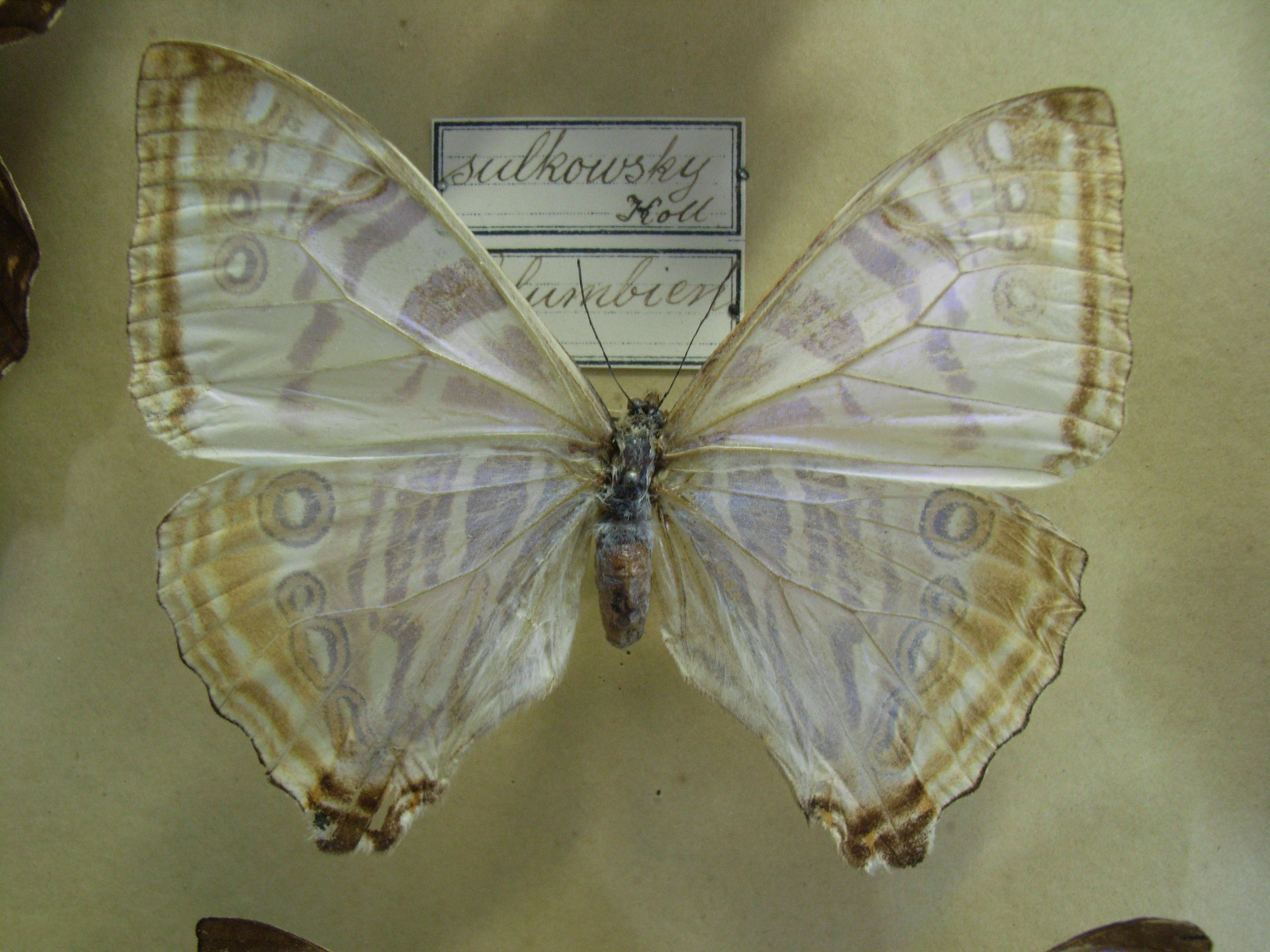 Morpho sulkowskyi Ex Museum Wiesbaden